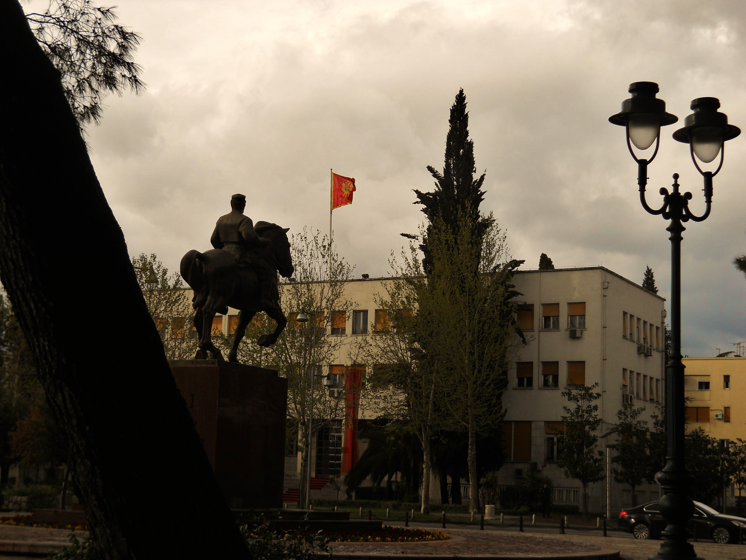 Parliament building, Podgorica